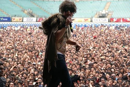 Juan at a concert